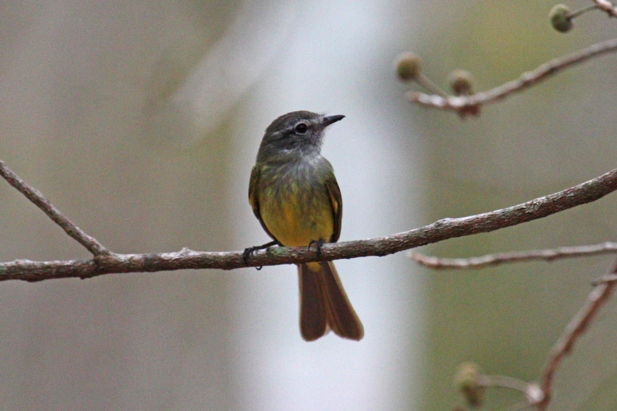 Greenish Elaenia 2